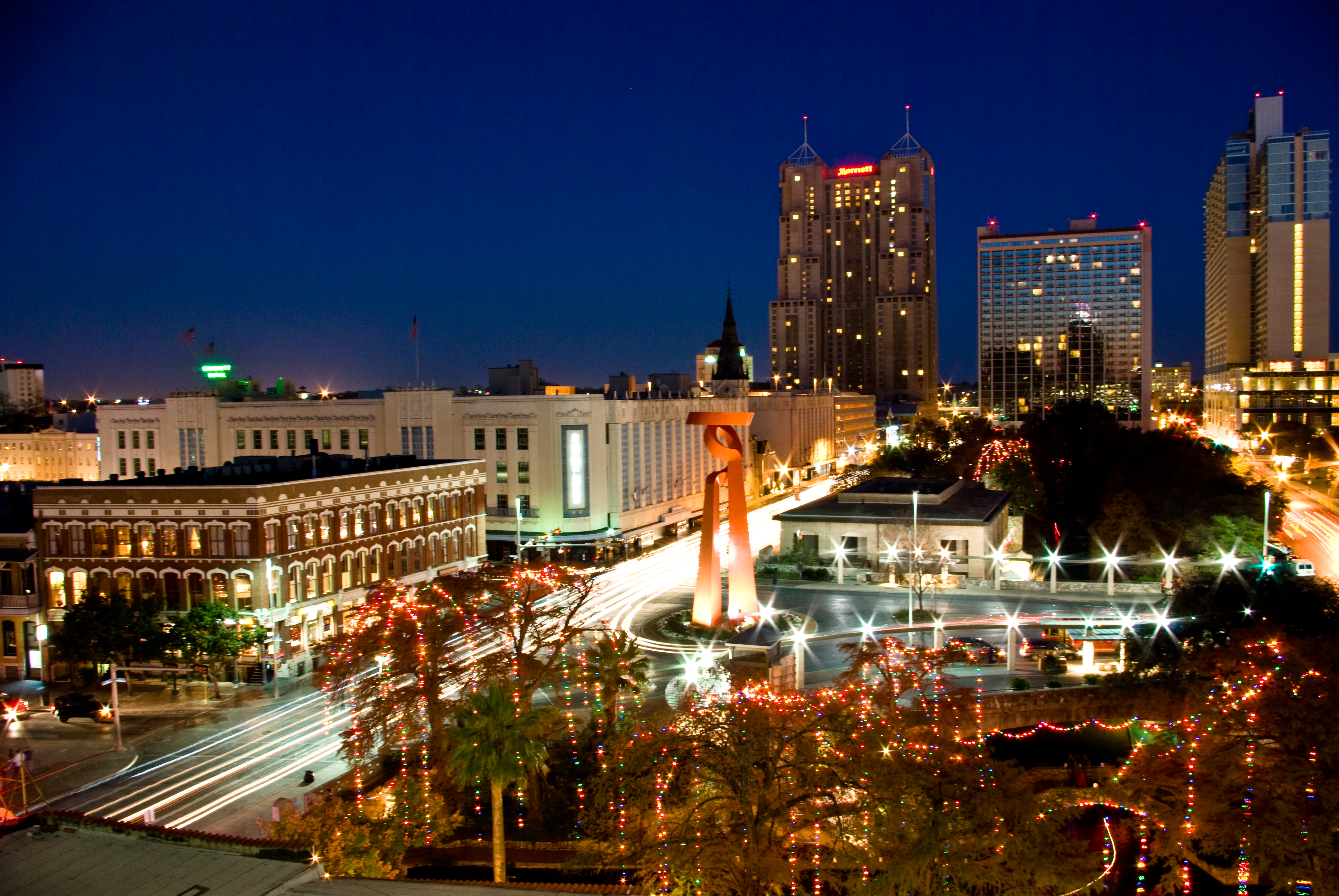 Christmas Lights in Downtown San Antonio. From on top the Riverbend Parking Garage. Torch of Friendship in Center.